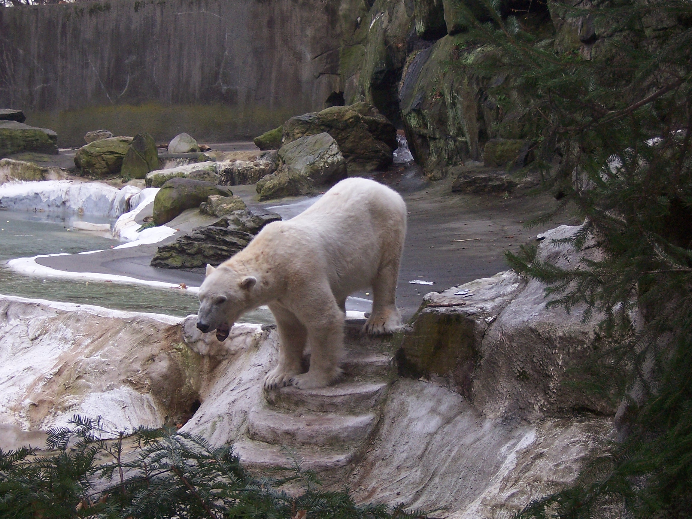 Polar bear in zoo